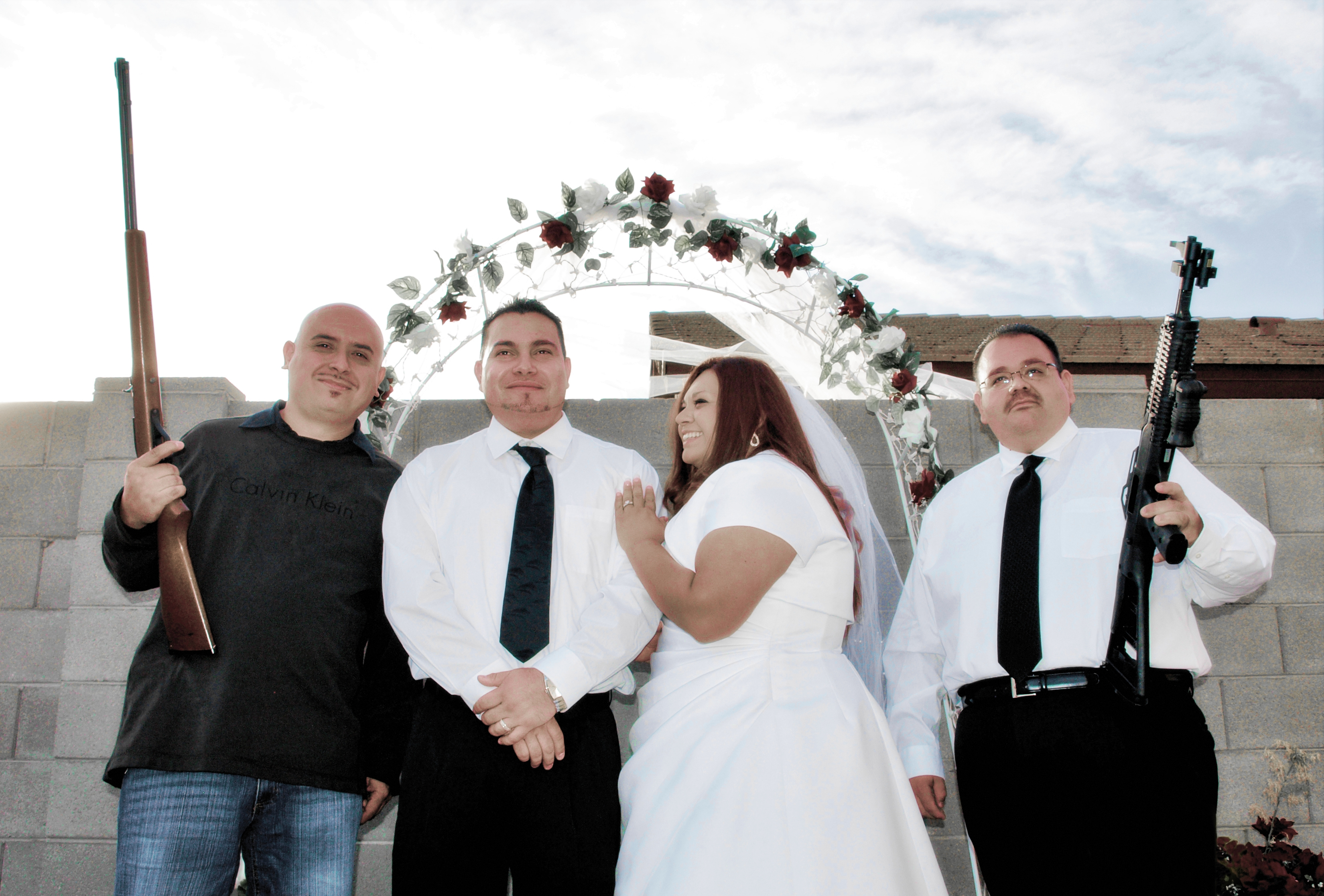 Shotgun Wedding